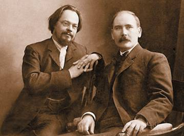 Yushkevich and Chirikov